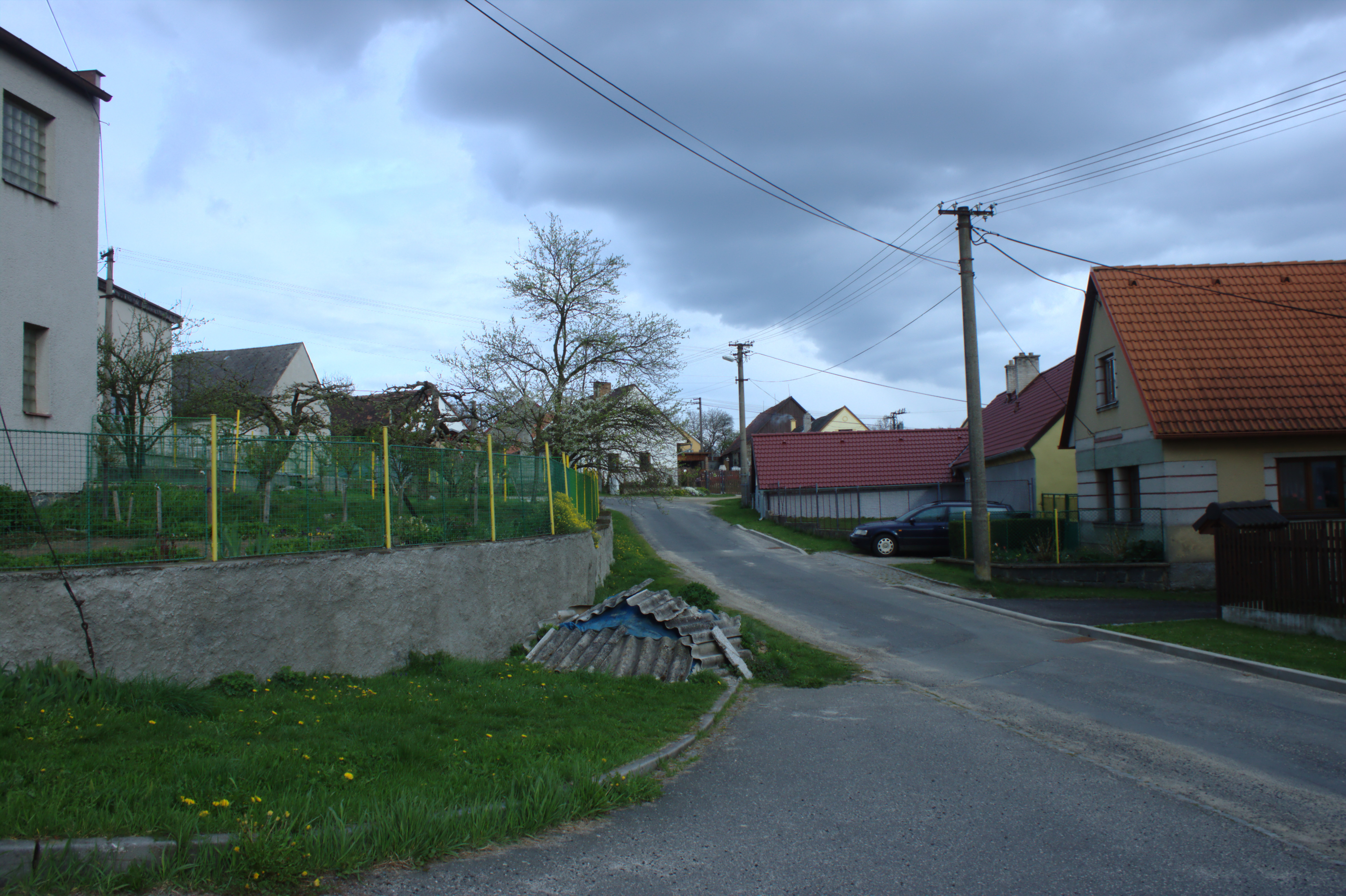 Buildings in the village of Tužice, Plzeň Region, CZ